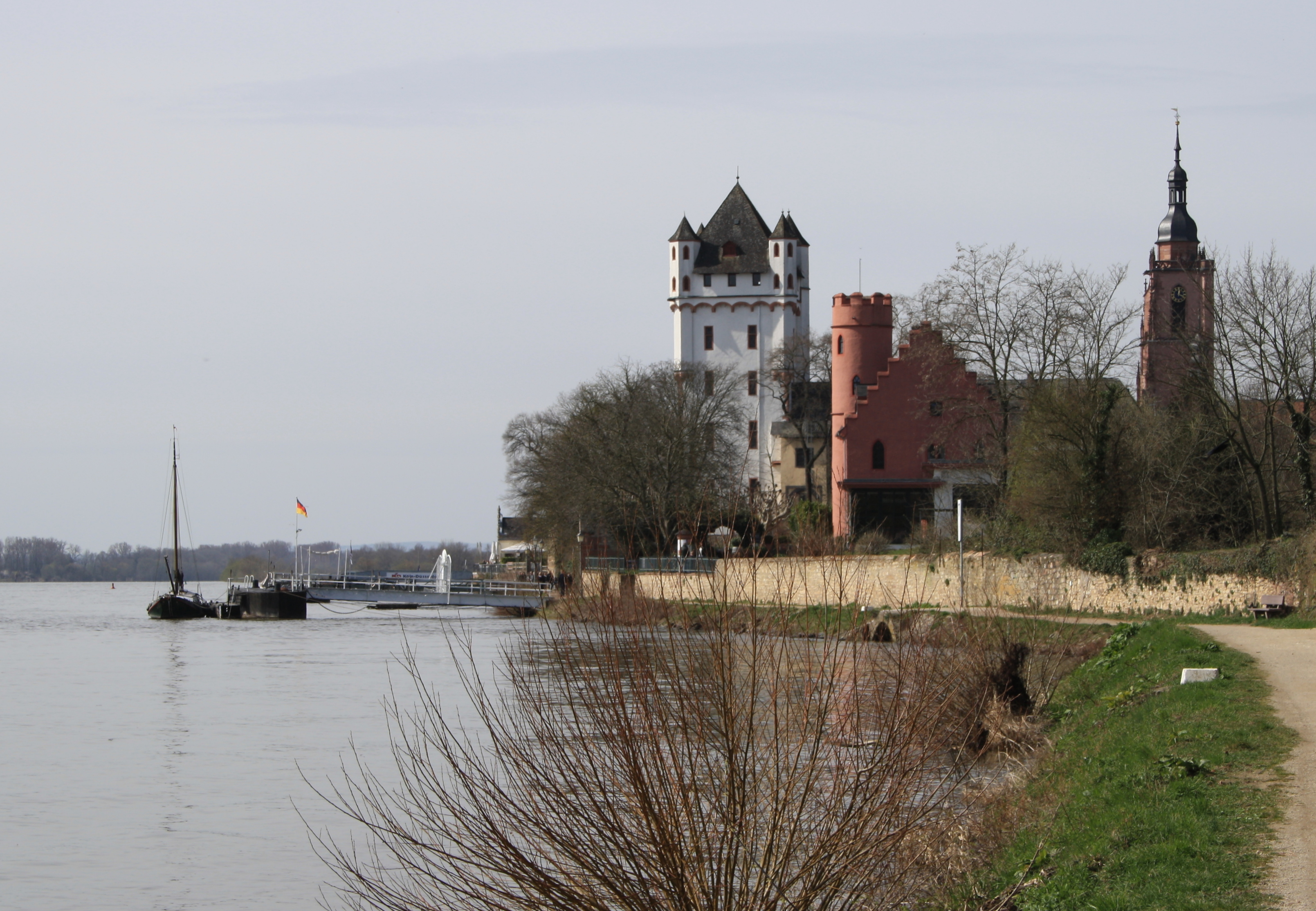 View to Eltville (Rhine)